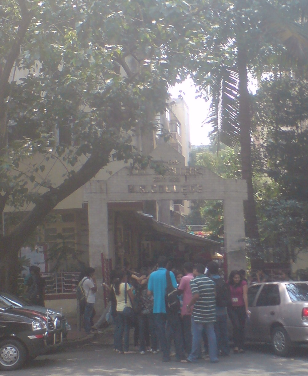 Entrance to H R College, 123 Dinshaw Wachha Road, Mumbai, India.